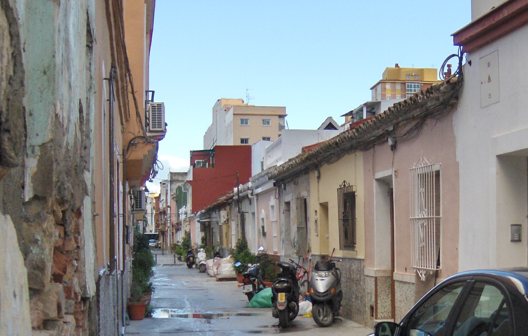 Street with XIX Century houses in Huelin, Málaga, Spain.